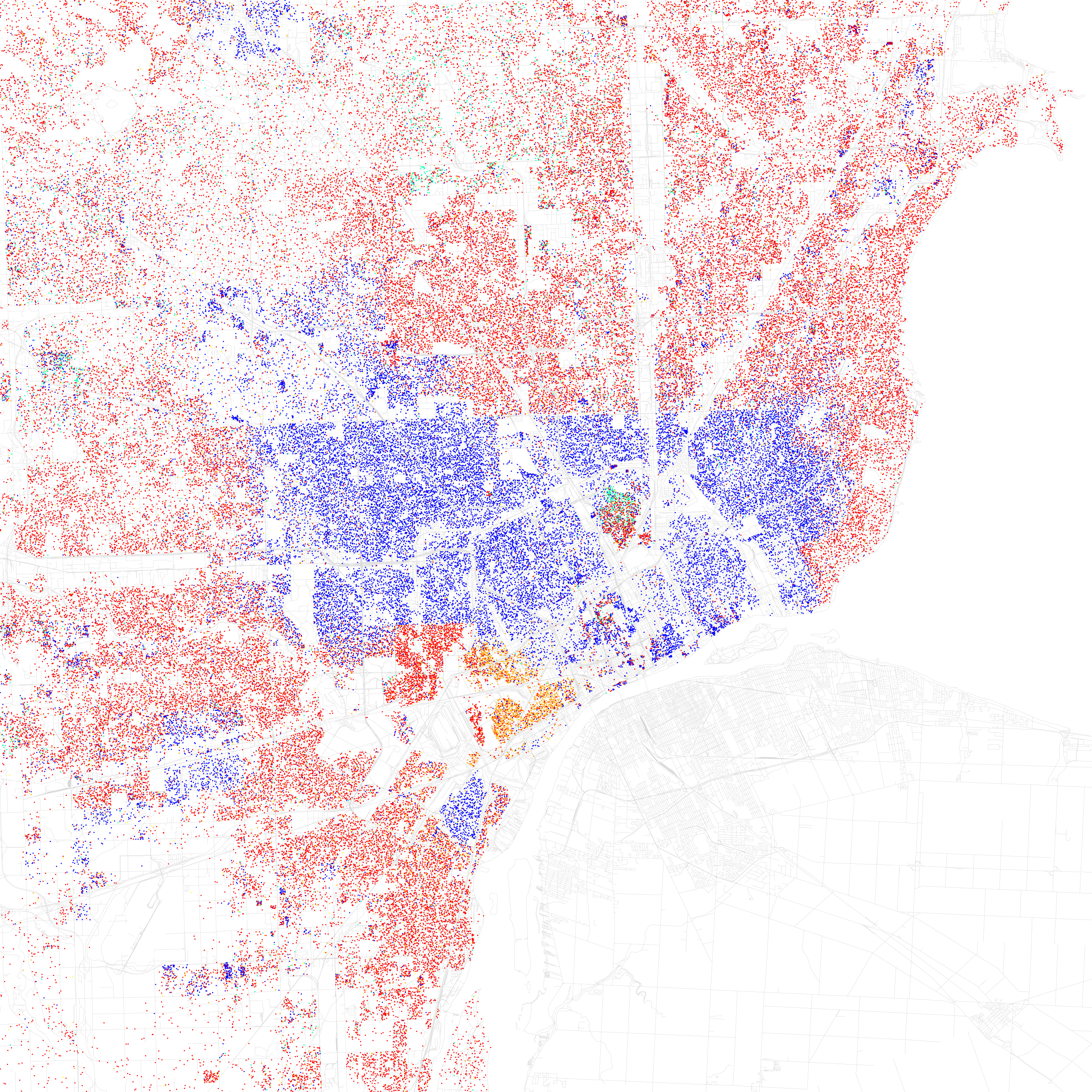 Racial distribution map (2010 Census) of Metro Detroit Red is White, Blue is Black, Green is Asian, Orange is Hispanic, Yellow is Other, and each dot is 25 residents.